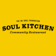 JBJ Soul Kitchen